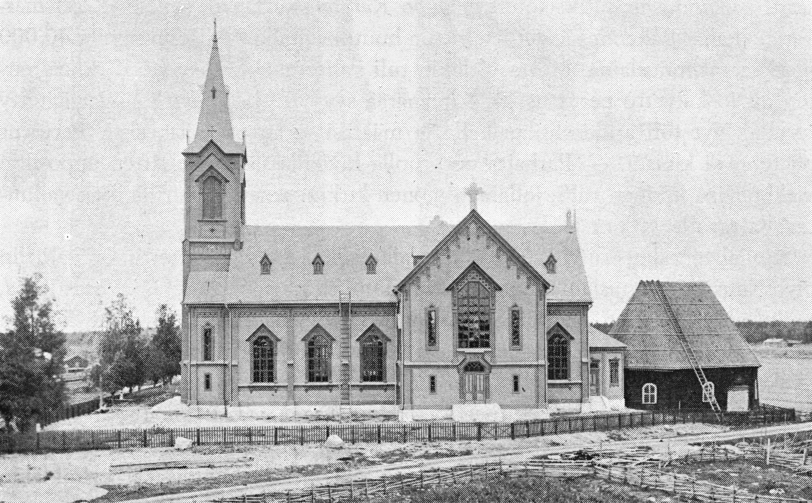 Church of Peräseinäjoki, Finland.